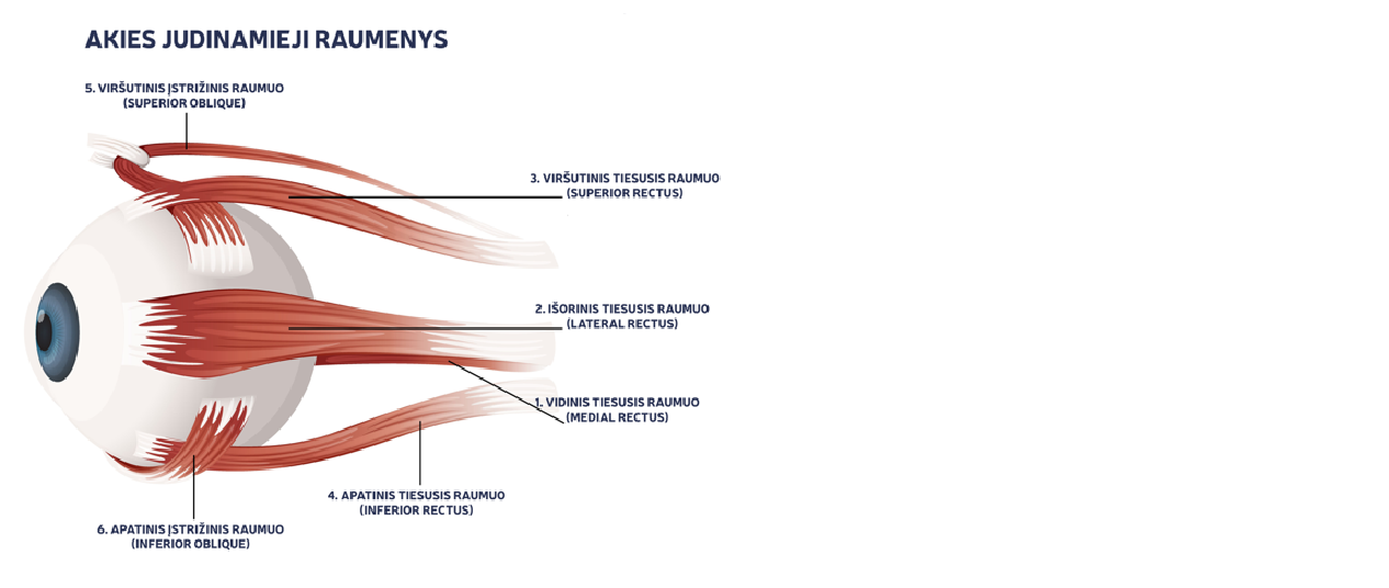 Muscles of the eye